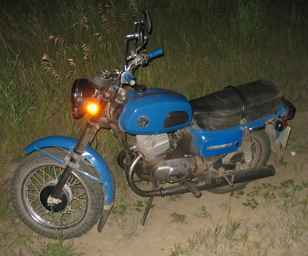 Russian byke "Voshod 3M"